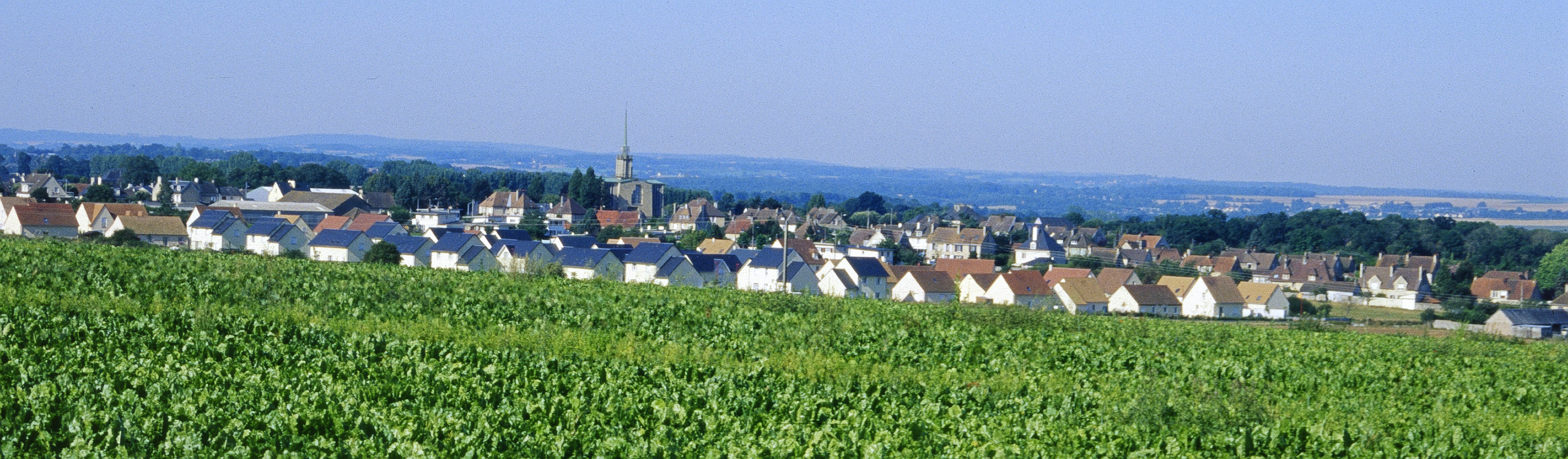 Viewpoint about May sur Orne, french village in Normandie.